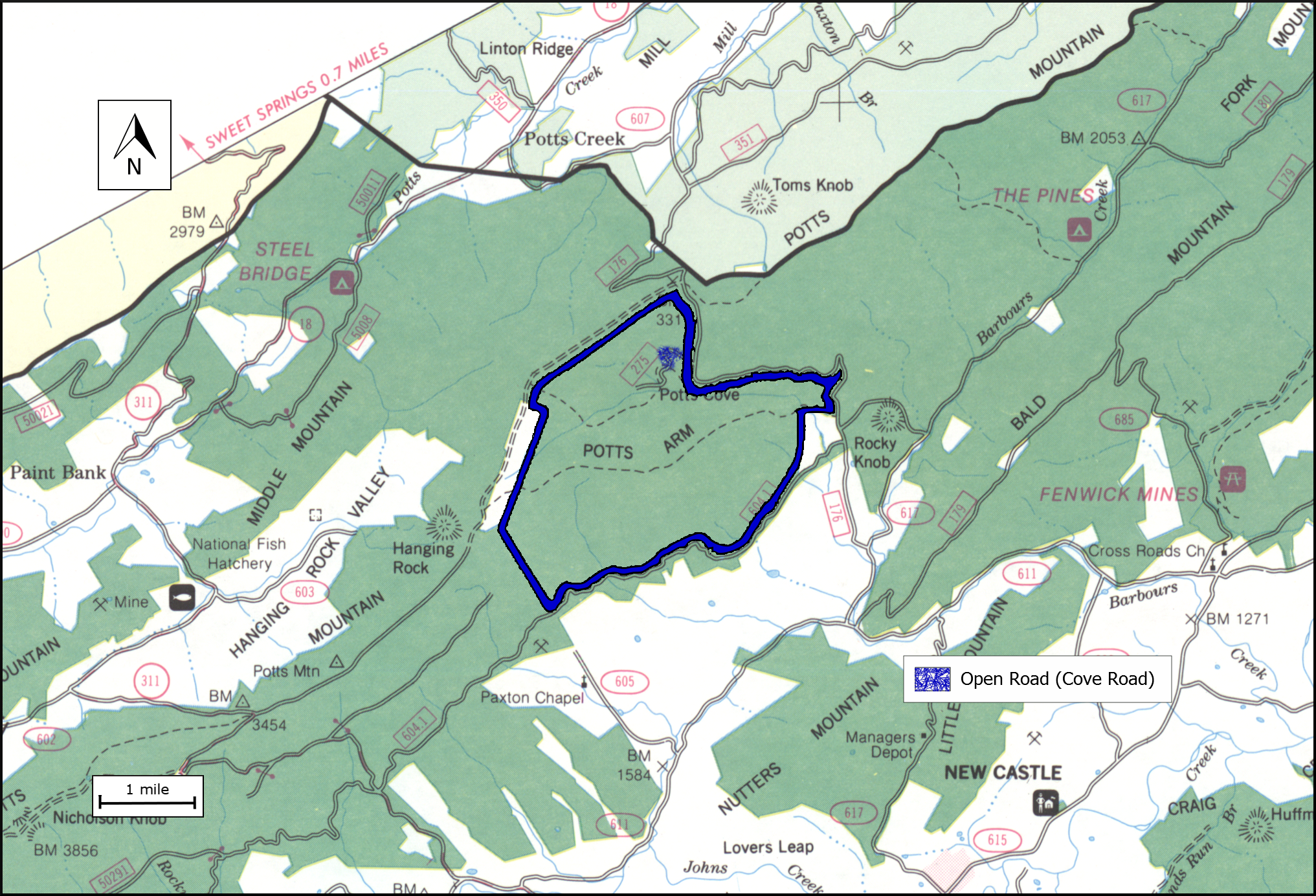 Boundary of the Potts Arm wildarea as identified by the Wilderness Society